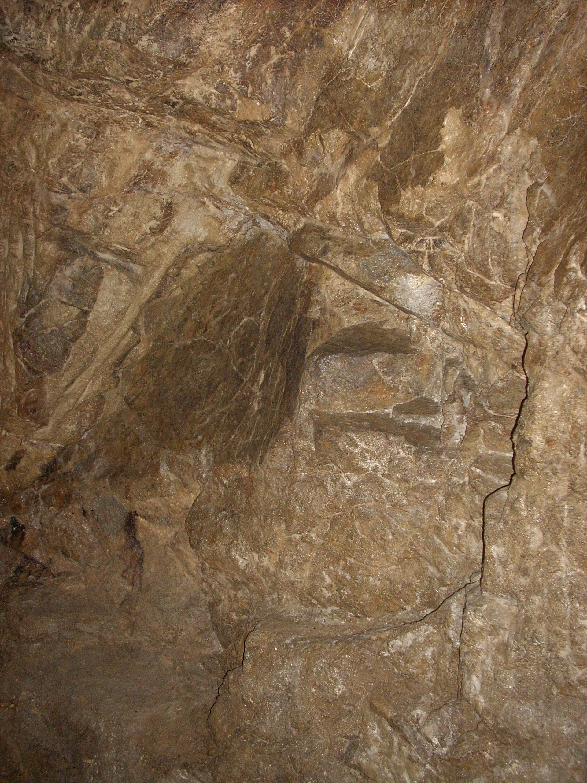 Mysterious niche in shining corridor in underground in Jihlava